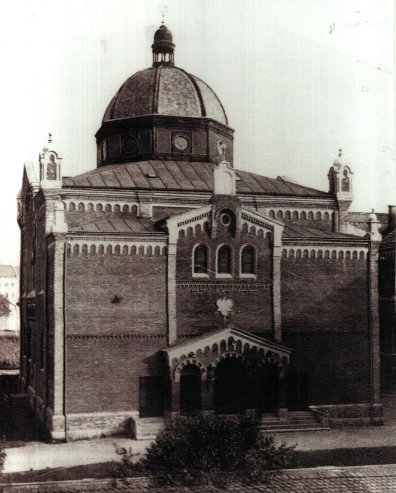 Old synagogue of Graz, built in 1892 and destroyed during Kristalnacht on November 9, 1938. View of the main entrance